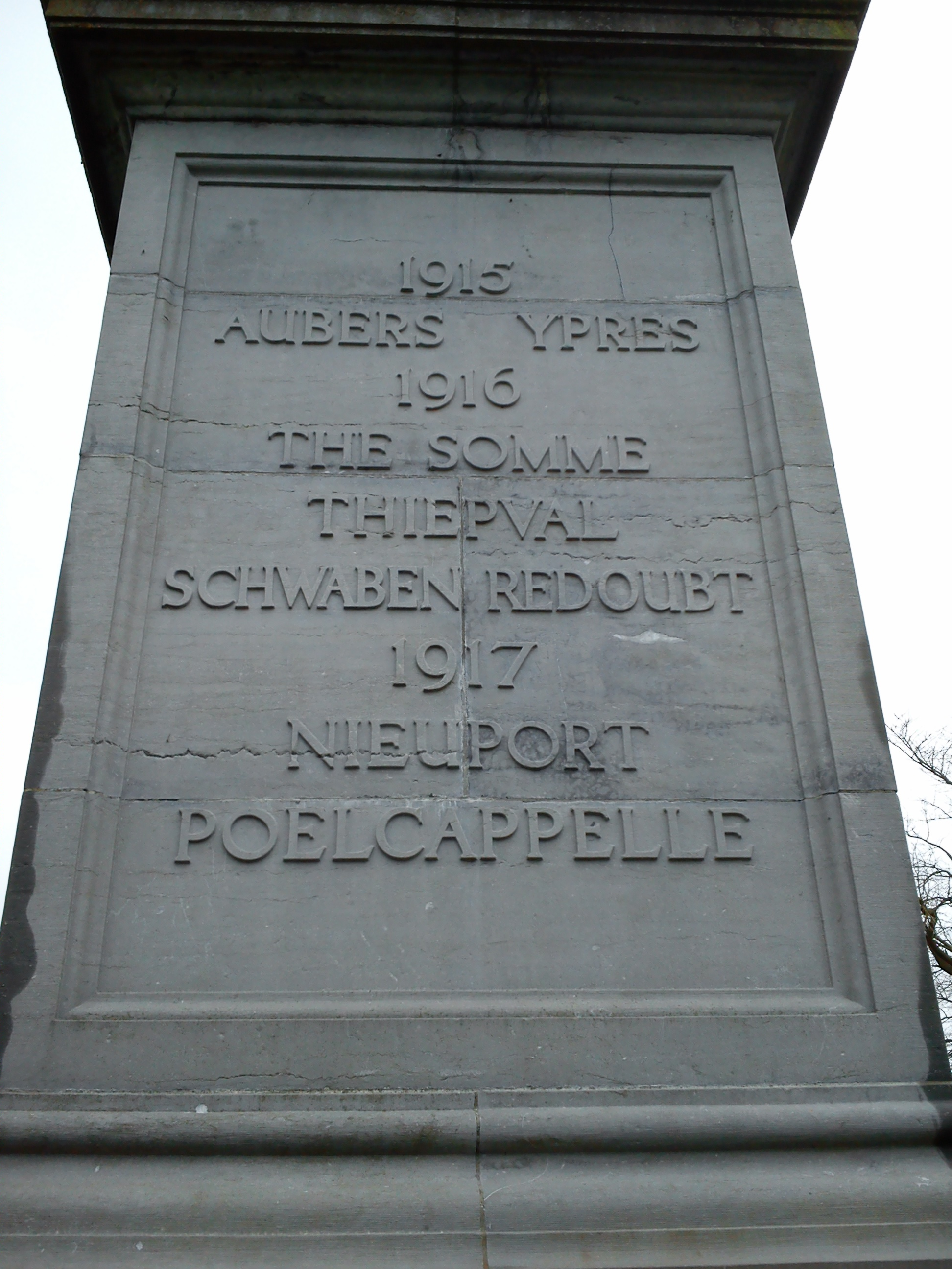 Ypres, Kanaaldijk, Site John McCrae: inscription at 49th (West Riding) Infantry Division Memorial